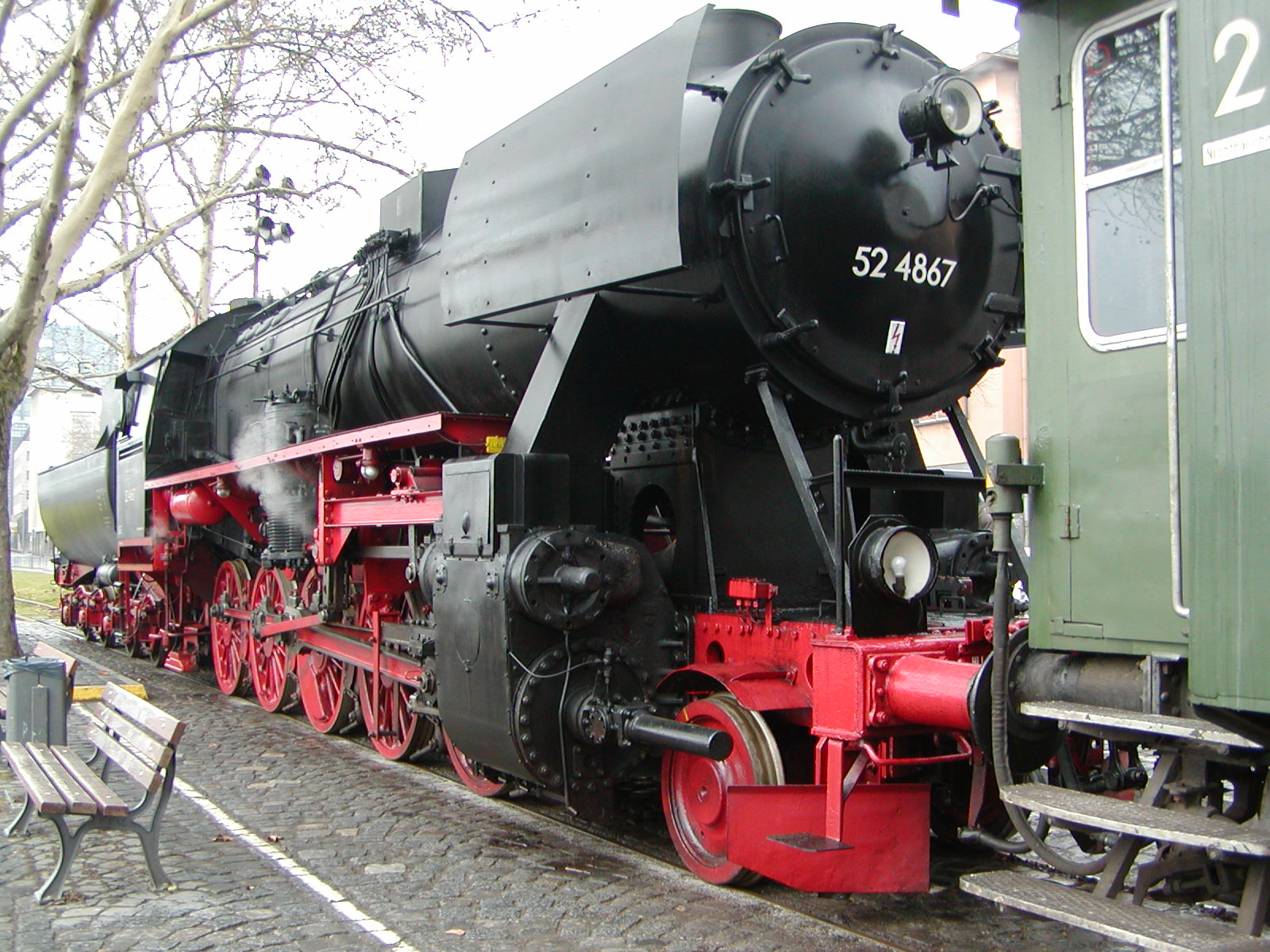 Steam locomotive series 52; museum railroad Frankfurt, Germany.